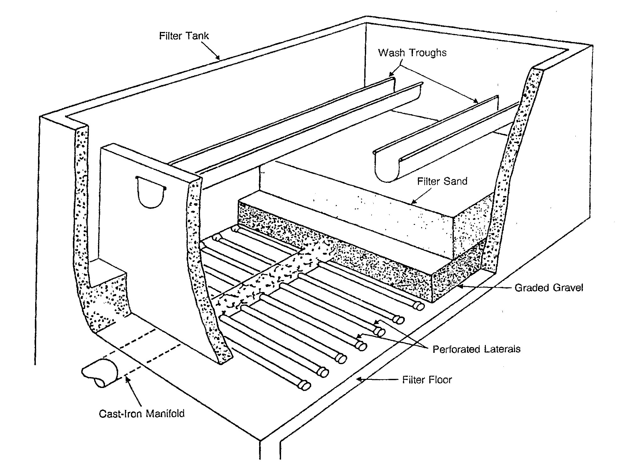 Illustration (cutaway view) of rapid sand filter for water purification